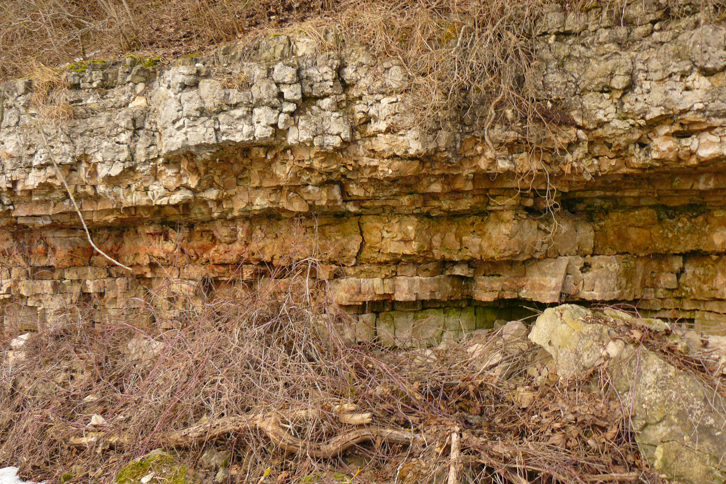 Dolessala nr.7-8